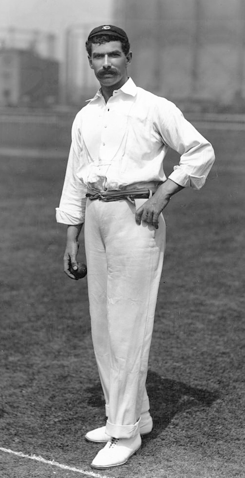 1897: English fast bowler Tom Richardson (1870 - 1912), who played for Surrey and England cricket teams.